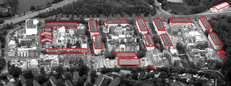 Burgholz (Hindenburg) Kaserne in Tübingen